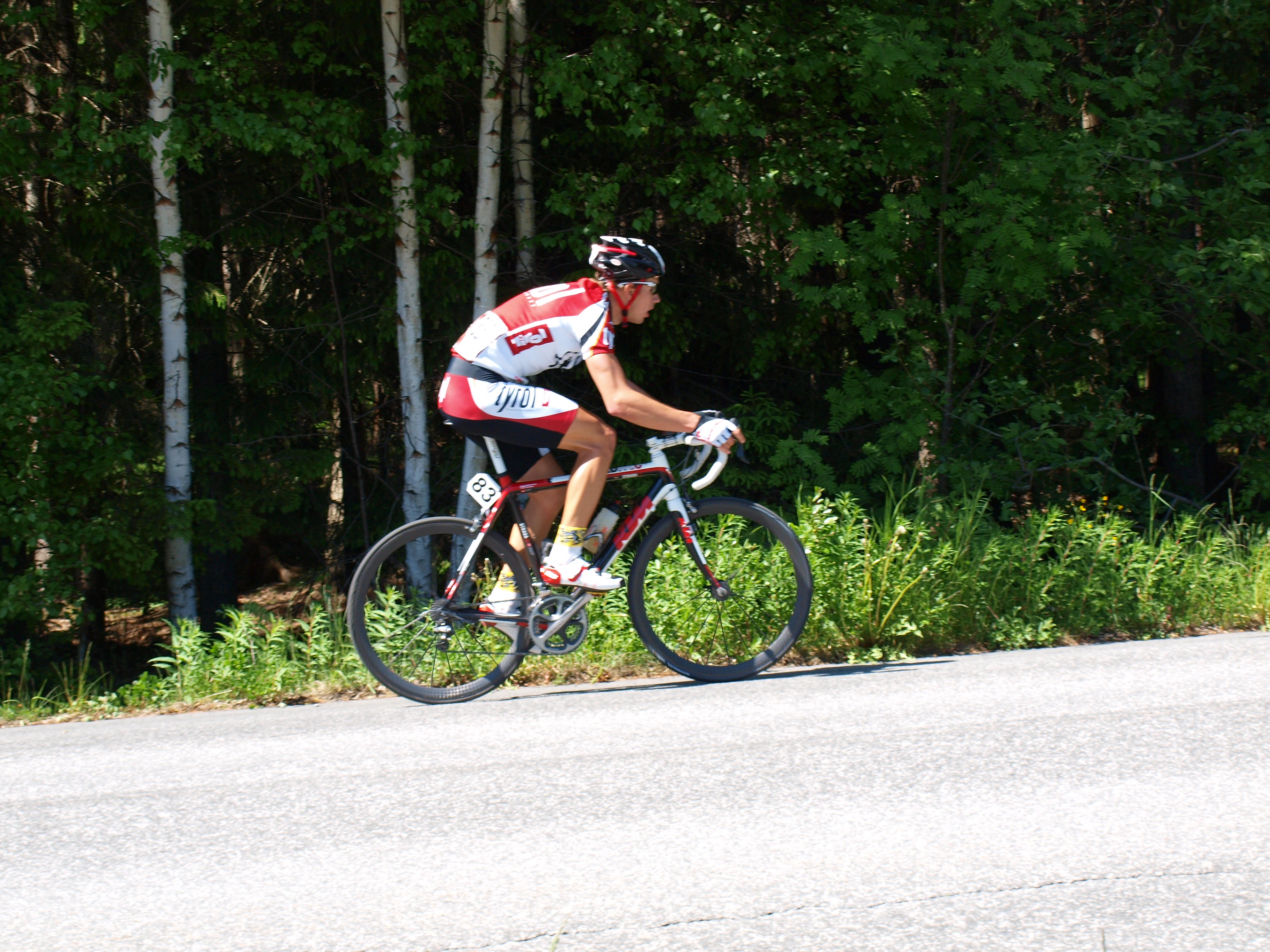 Austrian cyclist Matthias Krizek, at Ringerike Grand Prix 2010.